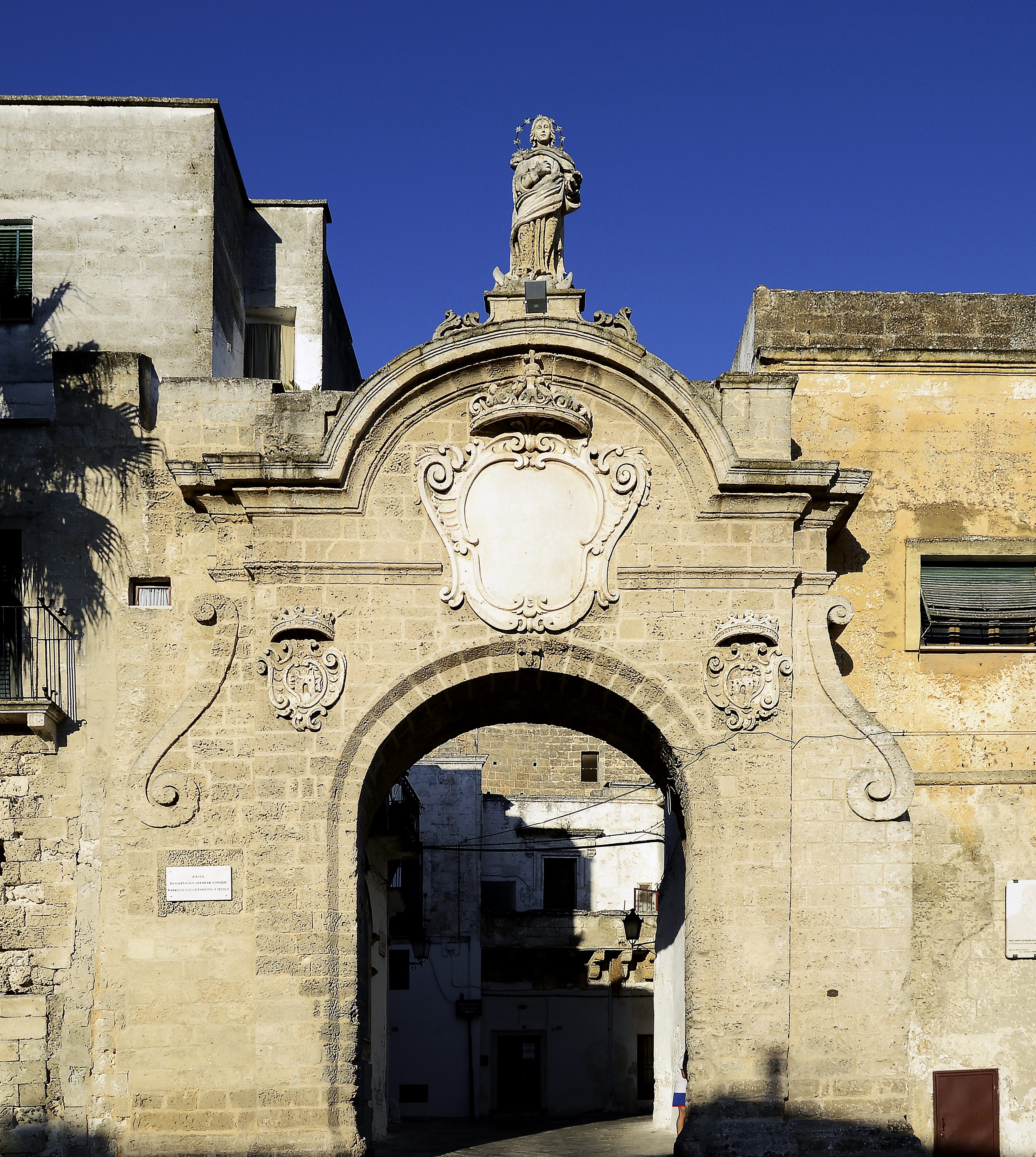 Door of Jews - Oria